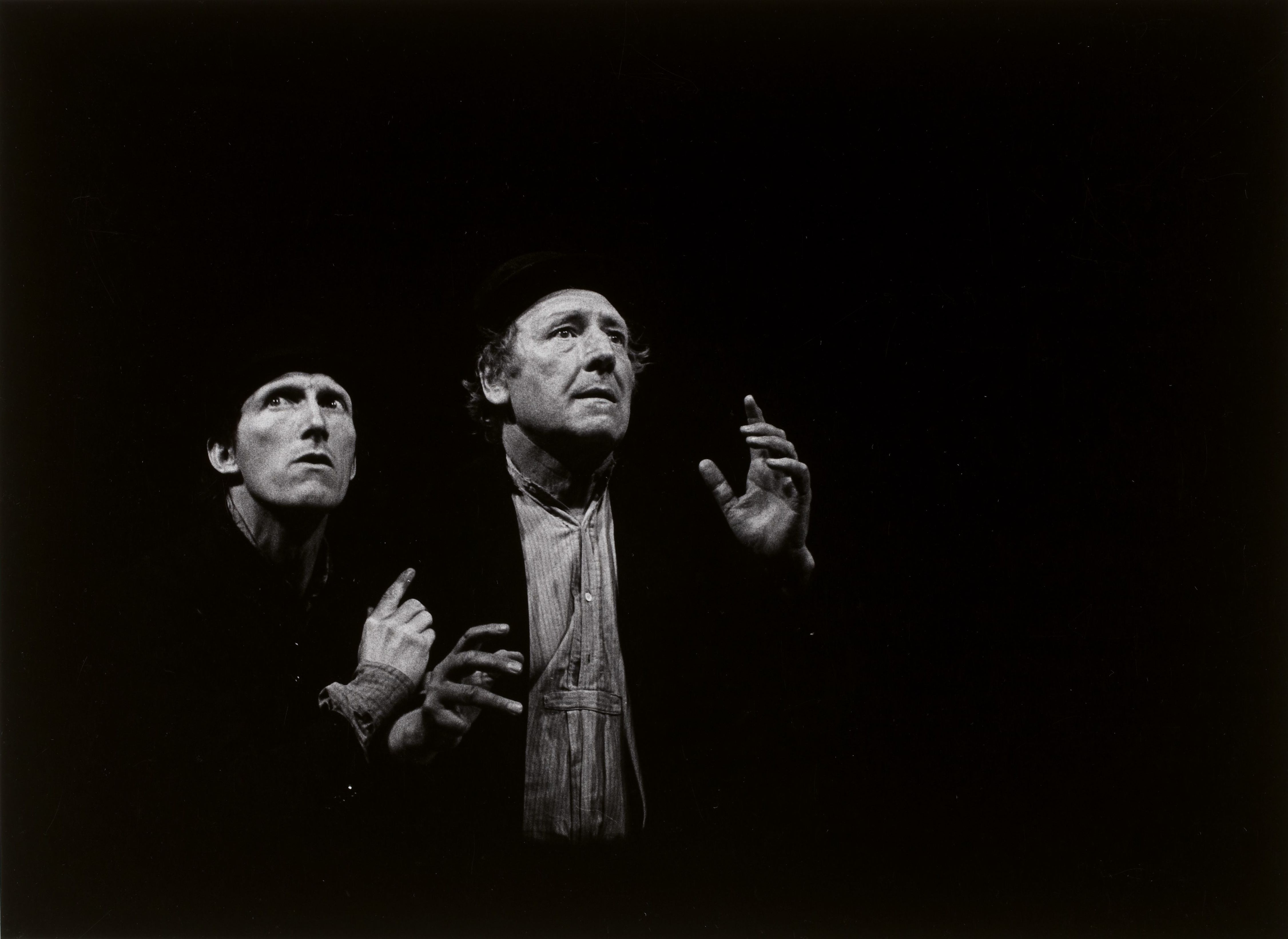 Waiting for Godot, text by Samuel Beckett, staging by Otomar Krejca. Avignon Festival, 1978. Rufus (Estragon) and Georges Wilson (Vladimir) / photographs by Fernand Michaud.